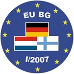 Logo of Battlegroup 107.